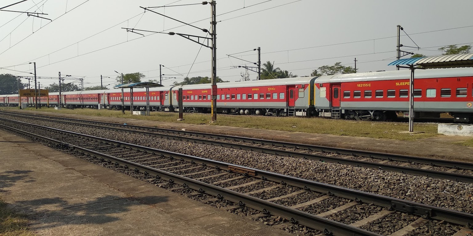 This is the Picture of Tapang railway station